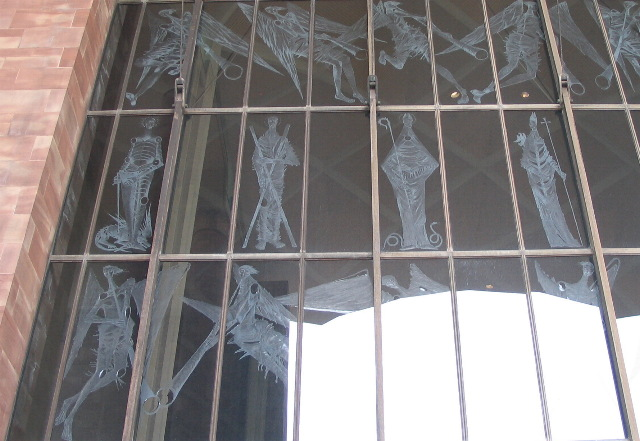 Patron saints and flying angels The engraved depictions of the four patron saints on the west window of Coventry Cathedral, with flying angels above and below. From left to right: St George, St Andrew, St Patrick and St David. Artist John Hutton, 1961.